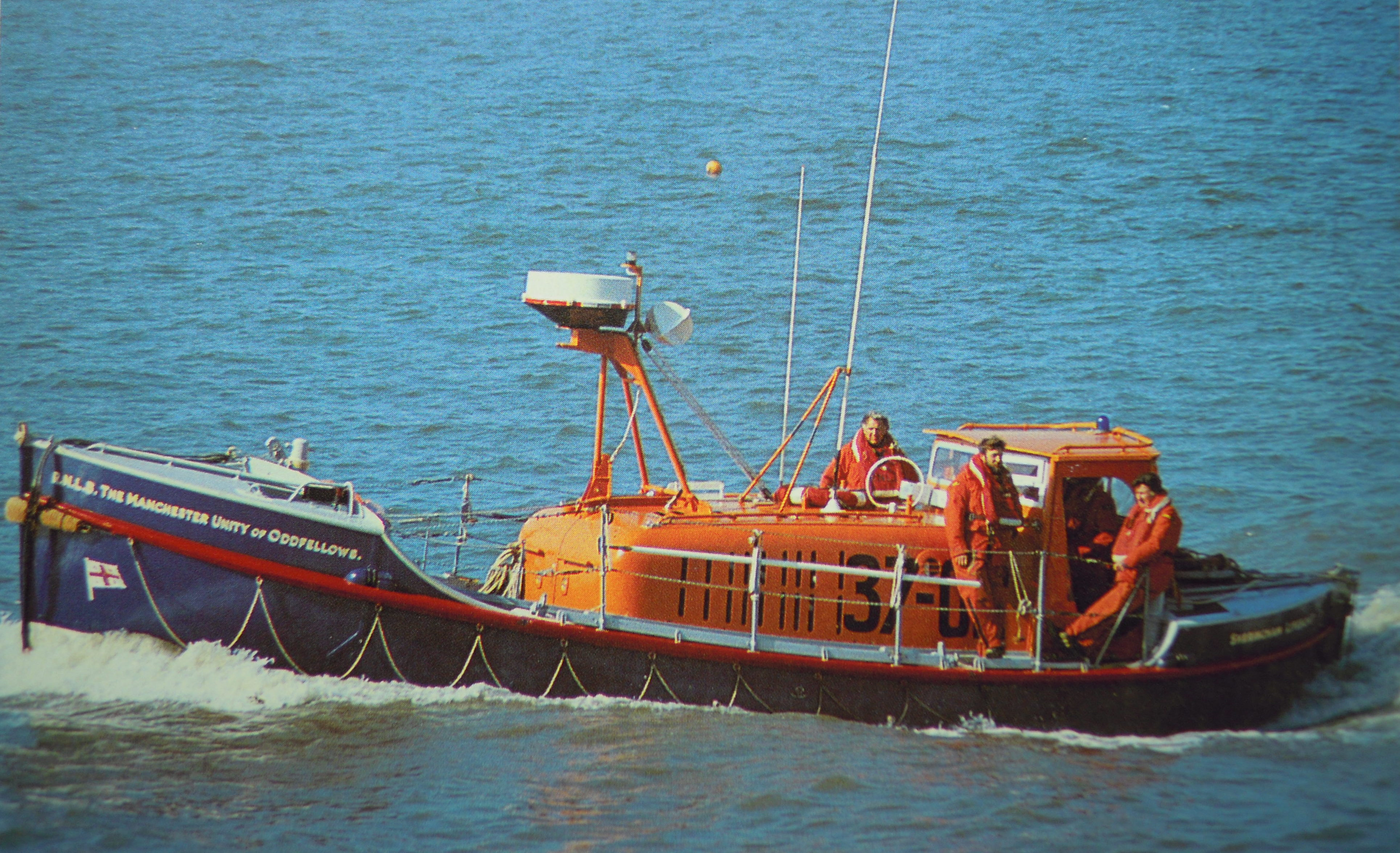 A Photograph of the Sheringham Lifeboat The Manchester Unity of Oddfellows ON960. She was on station from 10th July 1961 until the 8th October 1990.